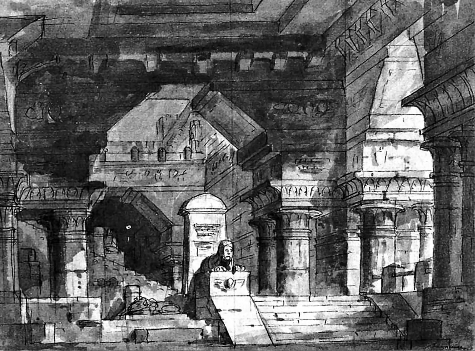 Francesco Bagnara's stage set (1835) for Giacomo Meyerbeer's Il crociato in Egitto (Act II, Scene 4)